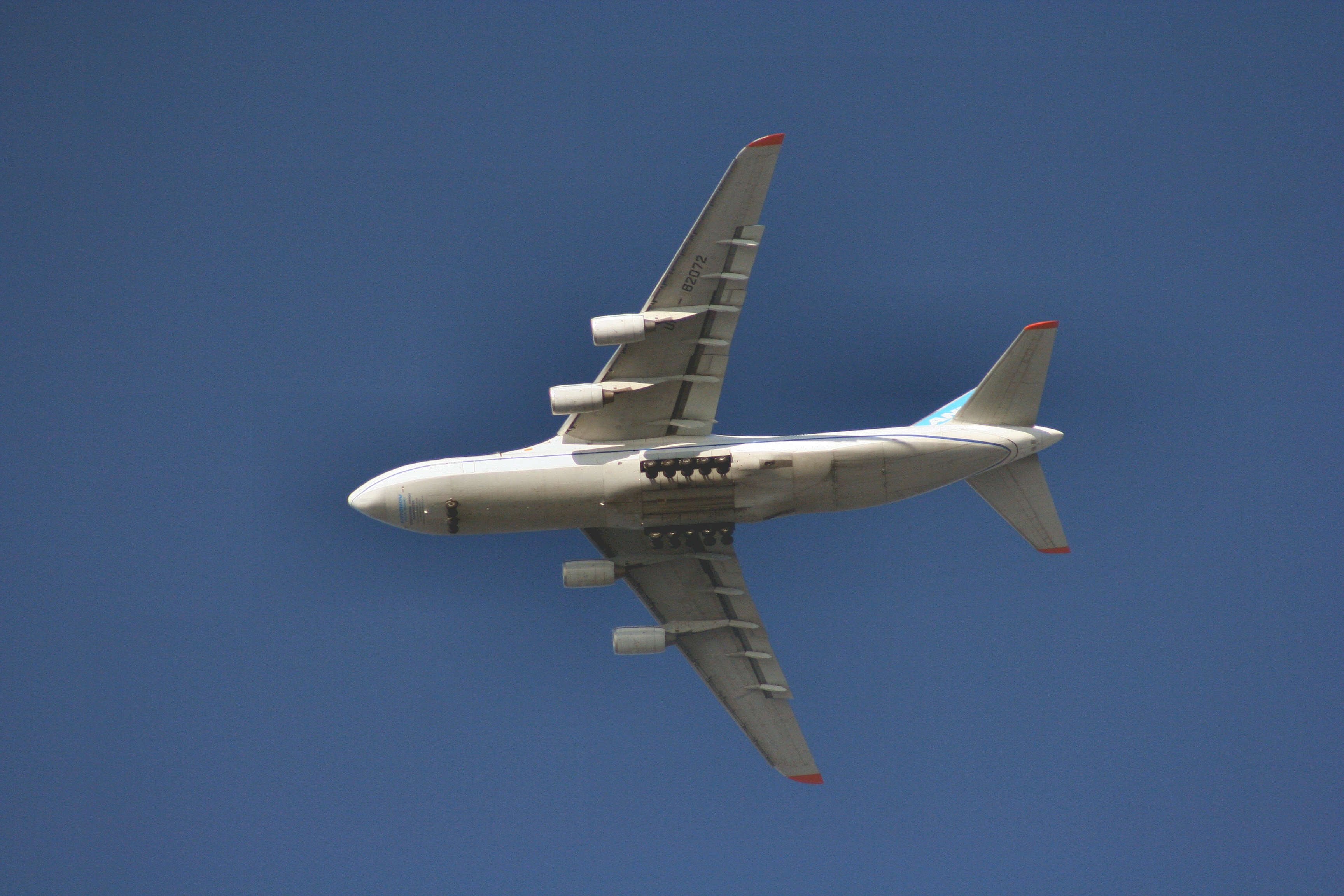 Antonov An-124 Rusłan preparing to land at Wroclaw-Strachowice airport.